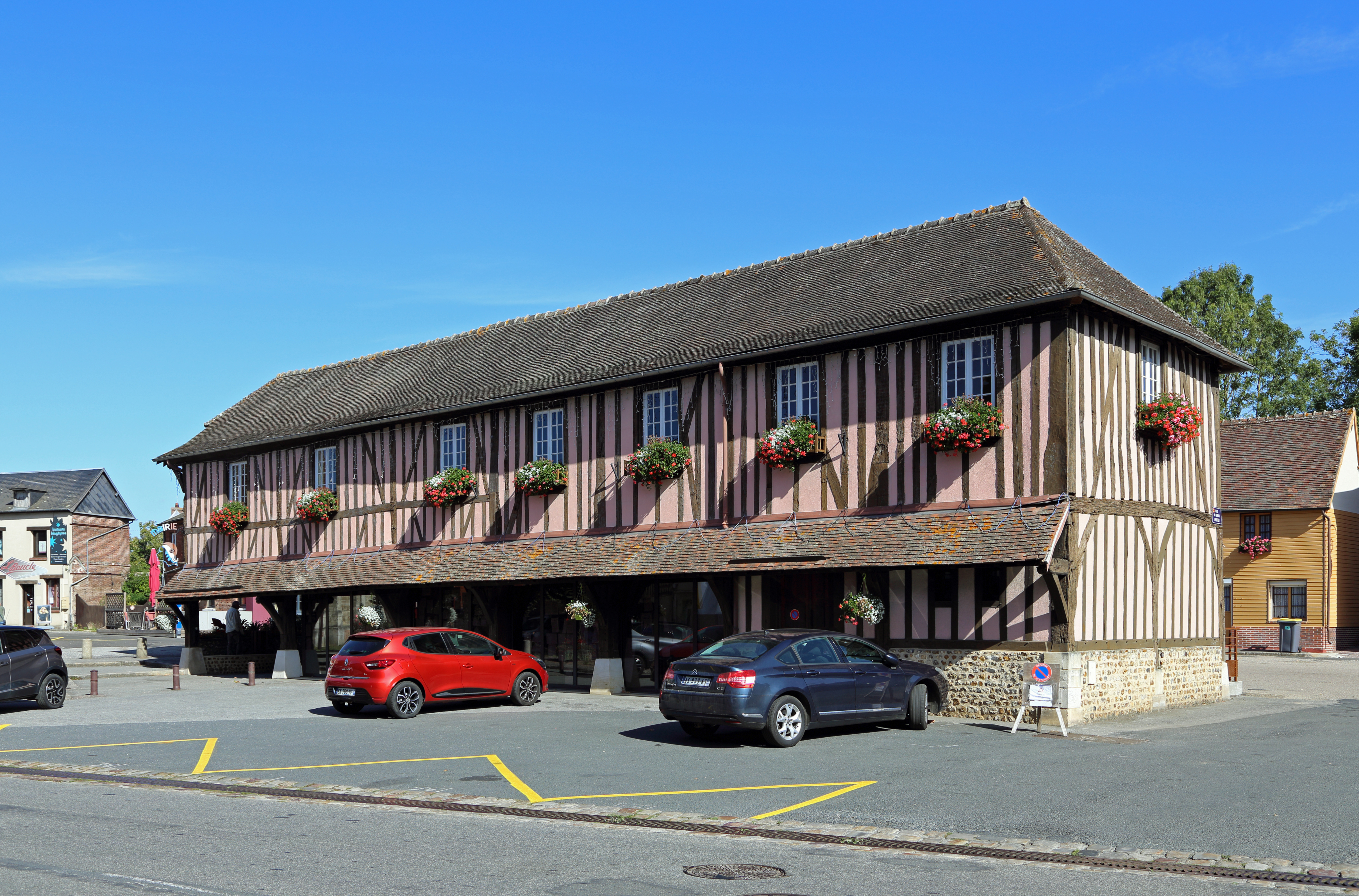 Harcourt (Eure department, France): town hall